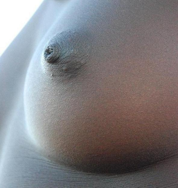 Breast of an African woman